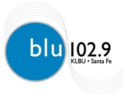 The logo of KJFA-FM